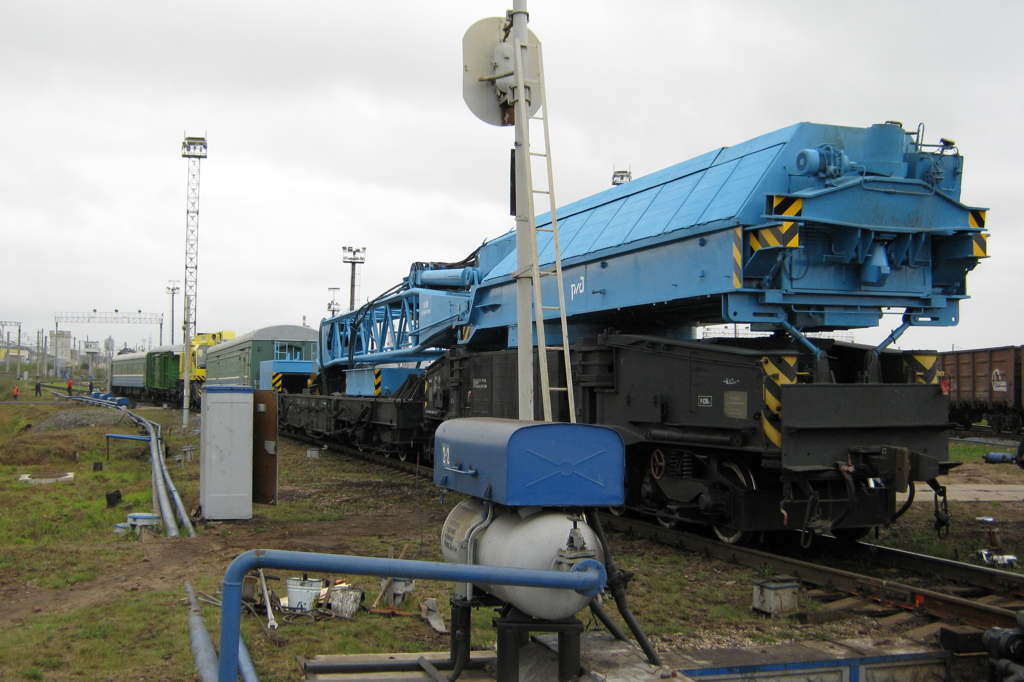 Russia, Recovery train